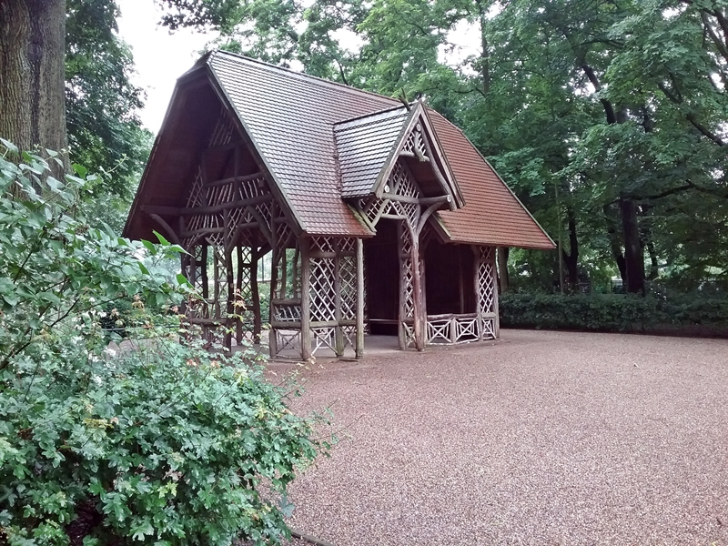 Tea Pavilion